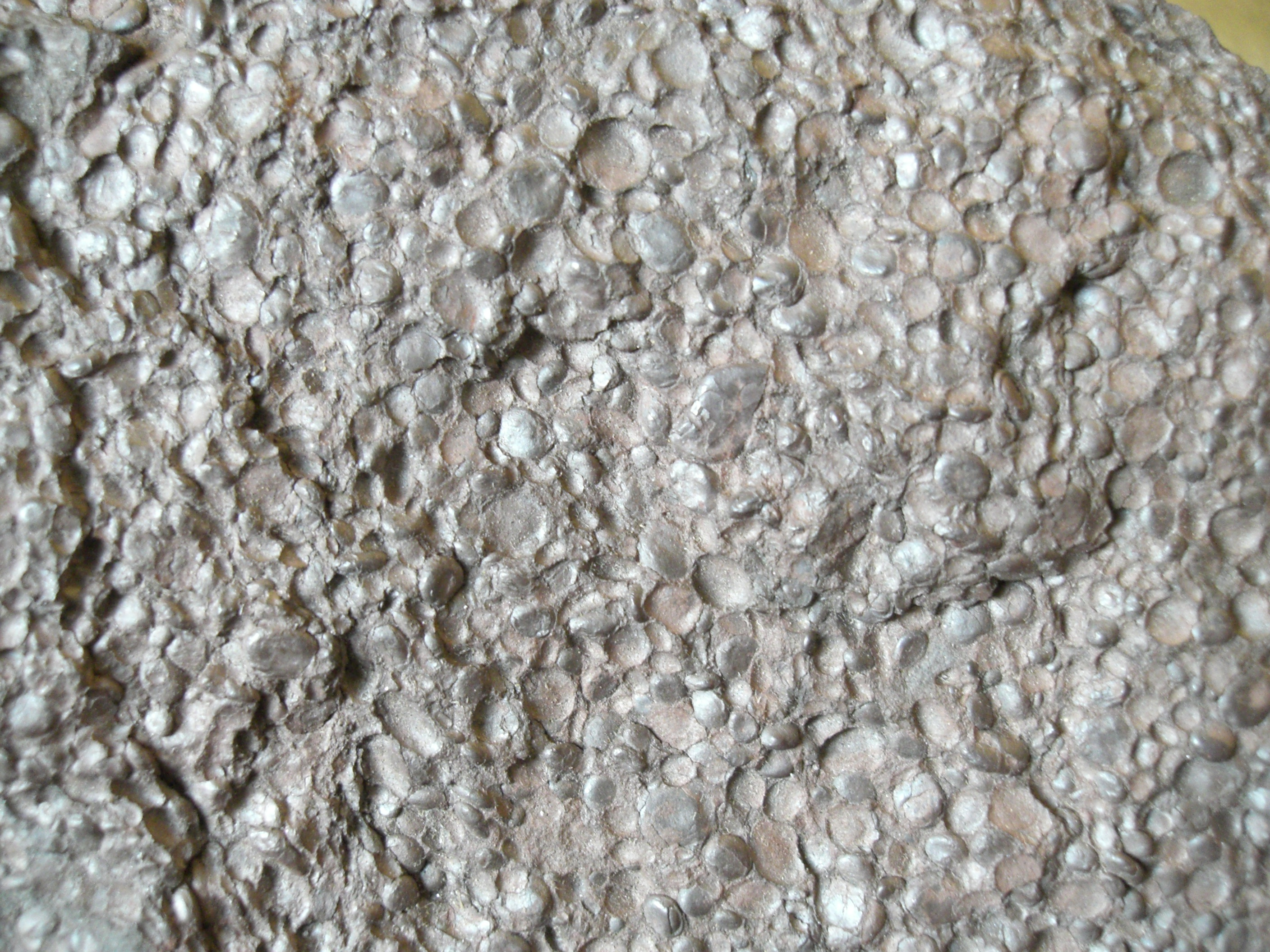 Sedimentary oolite iron ore